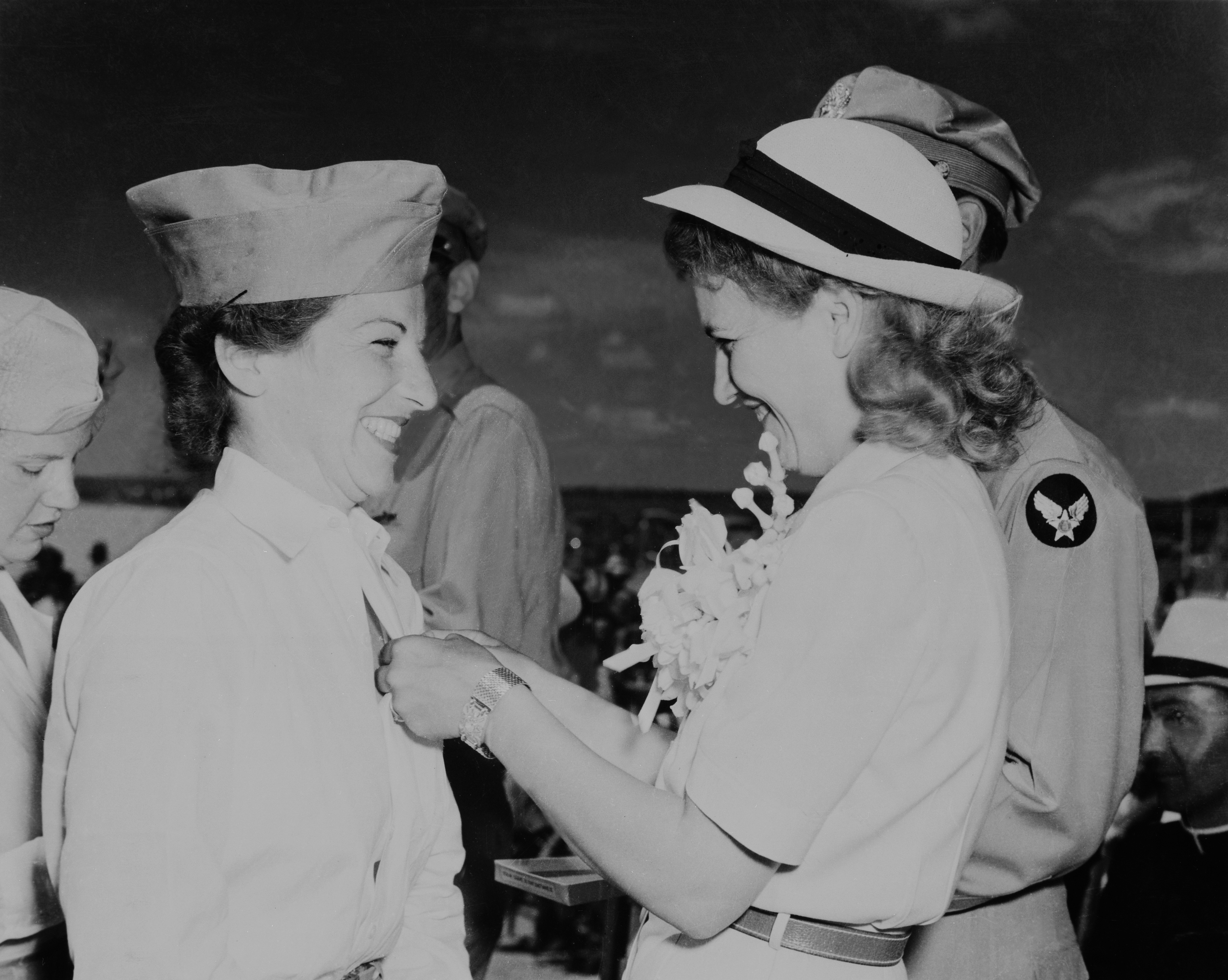 Jacqueline Cochran pins the wings on new WASP training graduate Isabel Fenton during graduation at Avenger Field, Sweetwater, Texas, on Jul 3, 1943.